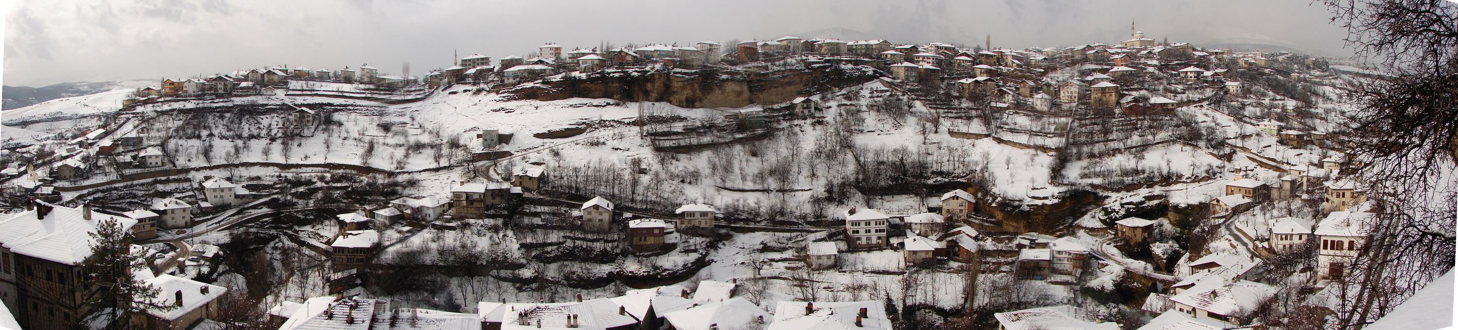 Safranbolu, view from old Goverment mansion